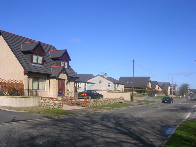 Houses in Balmedie.